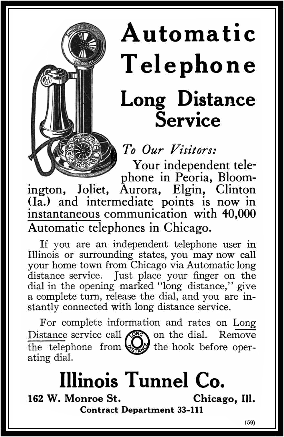 Advertisement for the Automatic (dial) telephone service and long distance telephone service of the Illinois Tunnel Company.